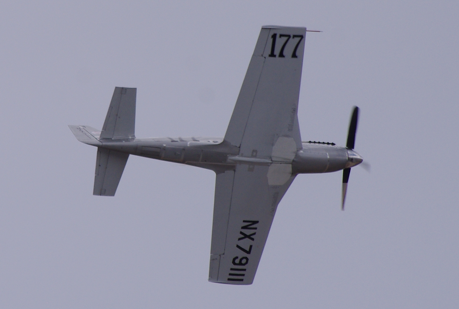 I pray for victims of the tragic crash.